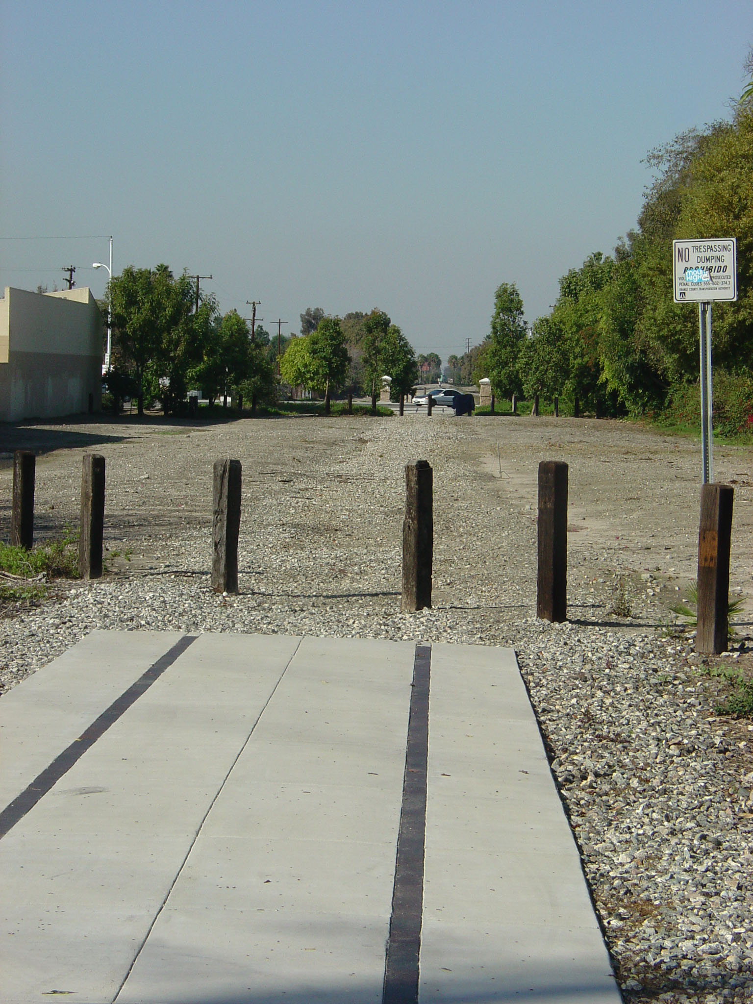 photo of Pacific Electric Easement